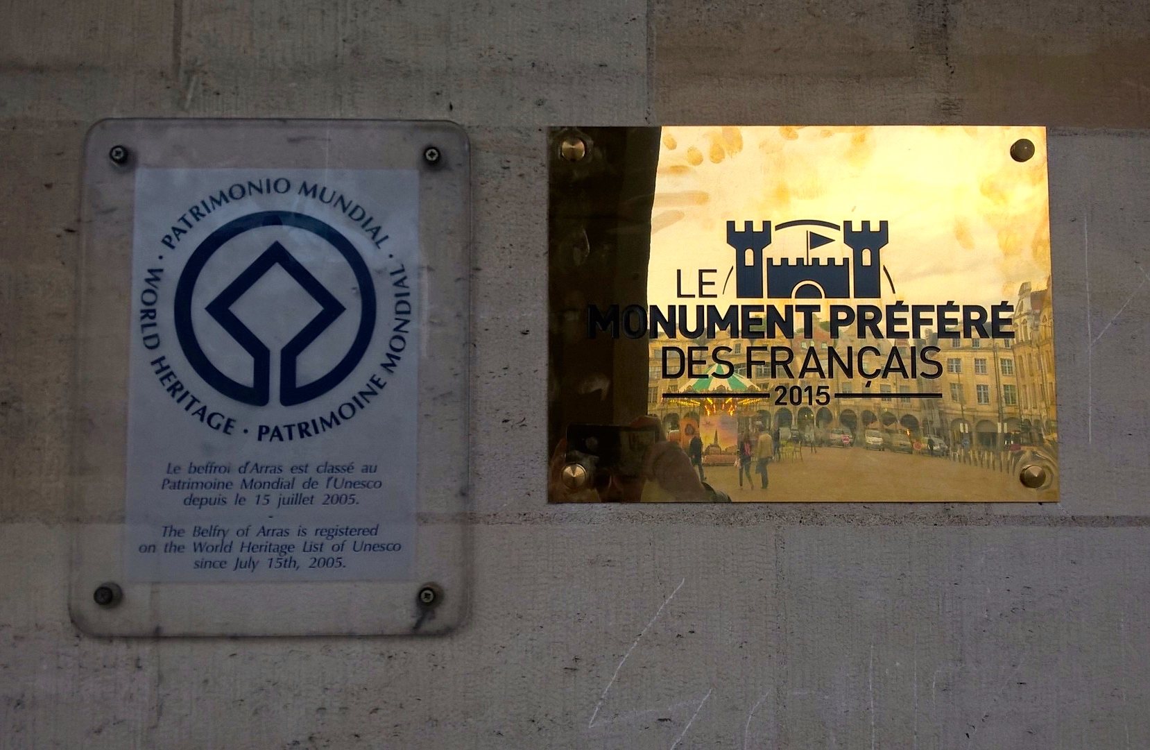 Arras belfry, favorite monument of French .